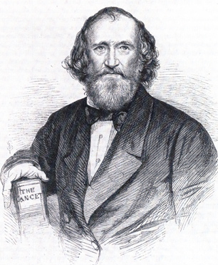 Photograph of wood engraving of Thomas Wakley in old age